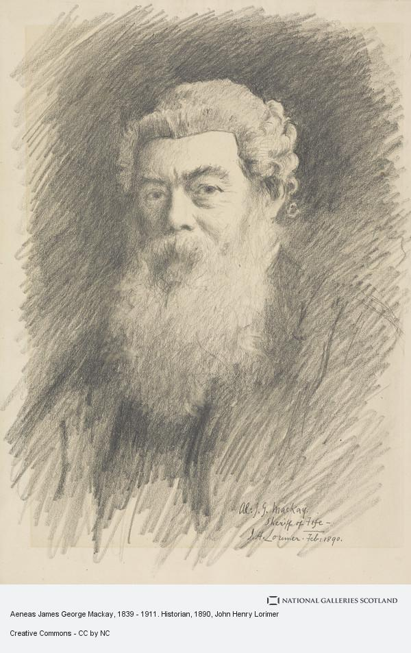 Portrait of Aeneas James George Mackay (1839–1911), Scottish lawyer and historian.